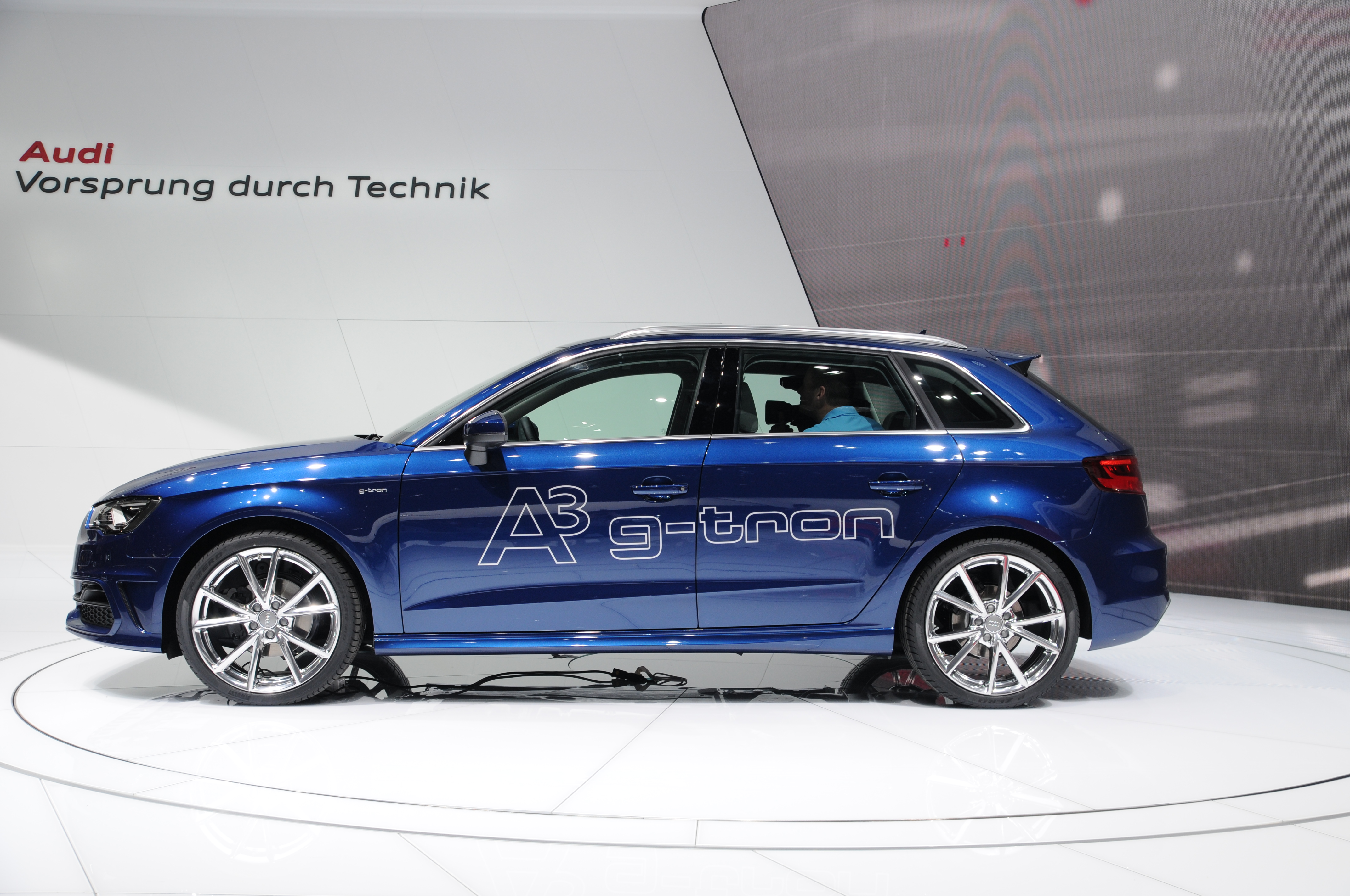 Geneva Motor Show 2013 (photos taken on the first press day)